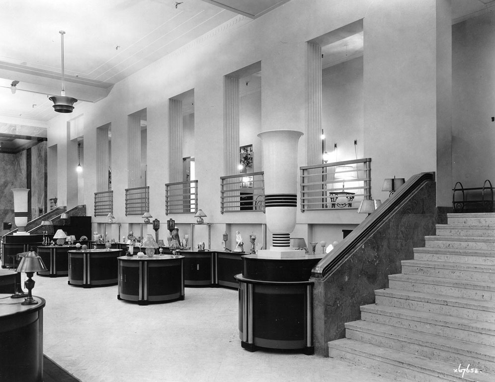 Eaton's Department Store, Toronto, Canada. Photograph of interior of the Eaton’s College Street Store, shopping concourse near main entrance.